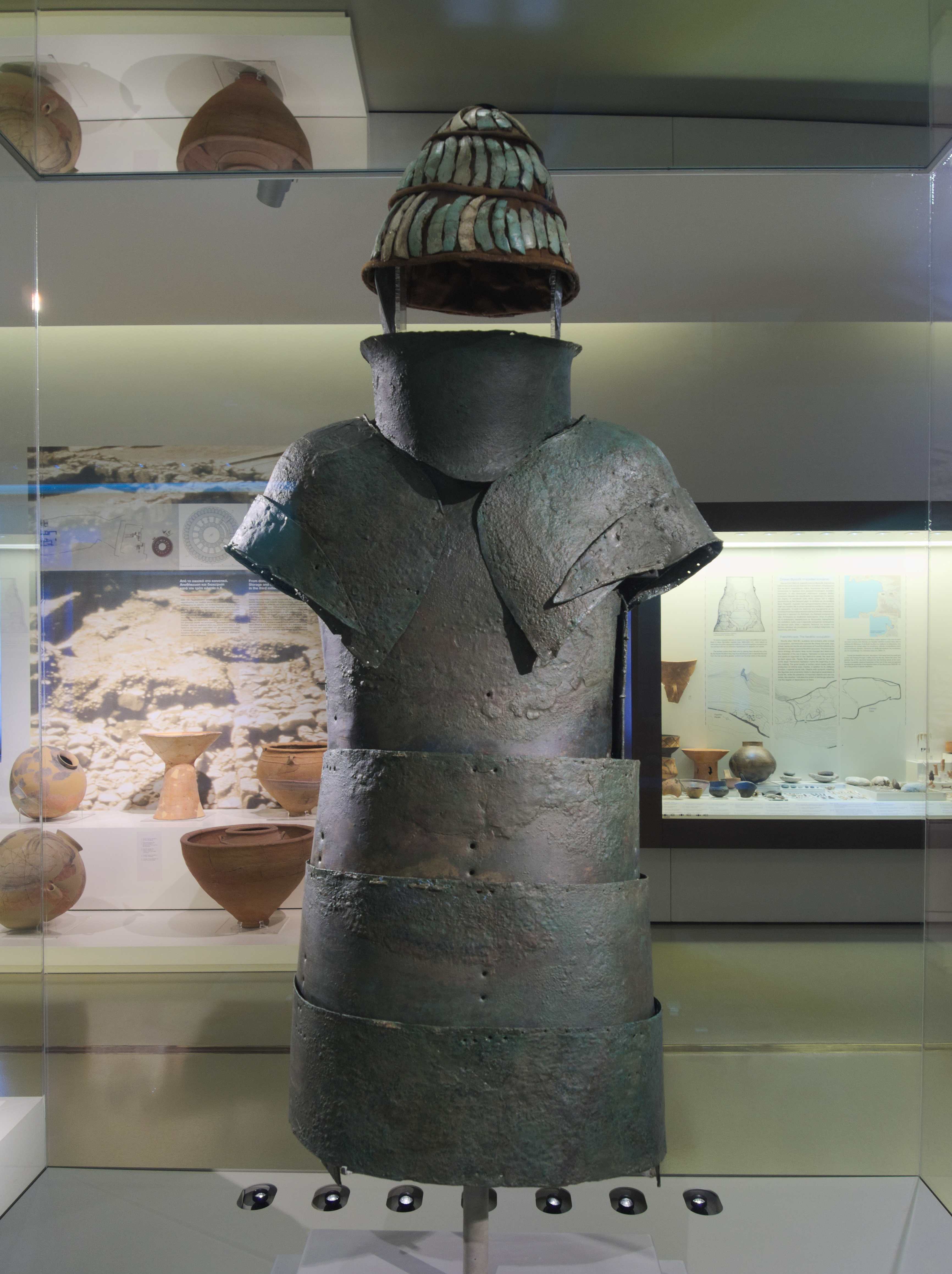 The mycenean armour known as Panoply of Dendra.